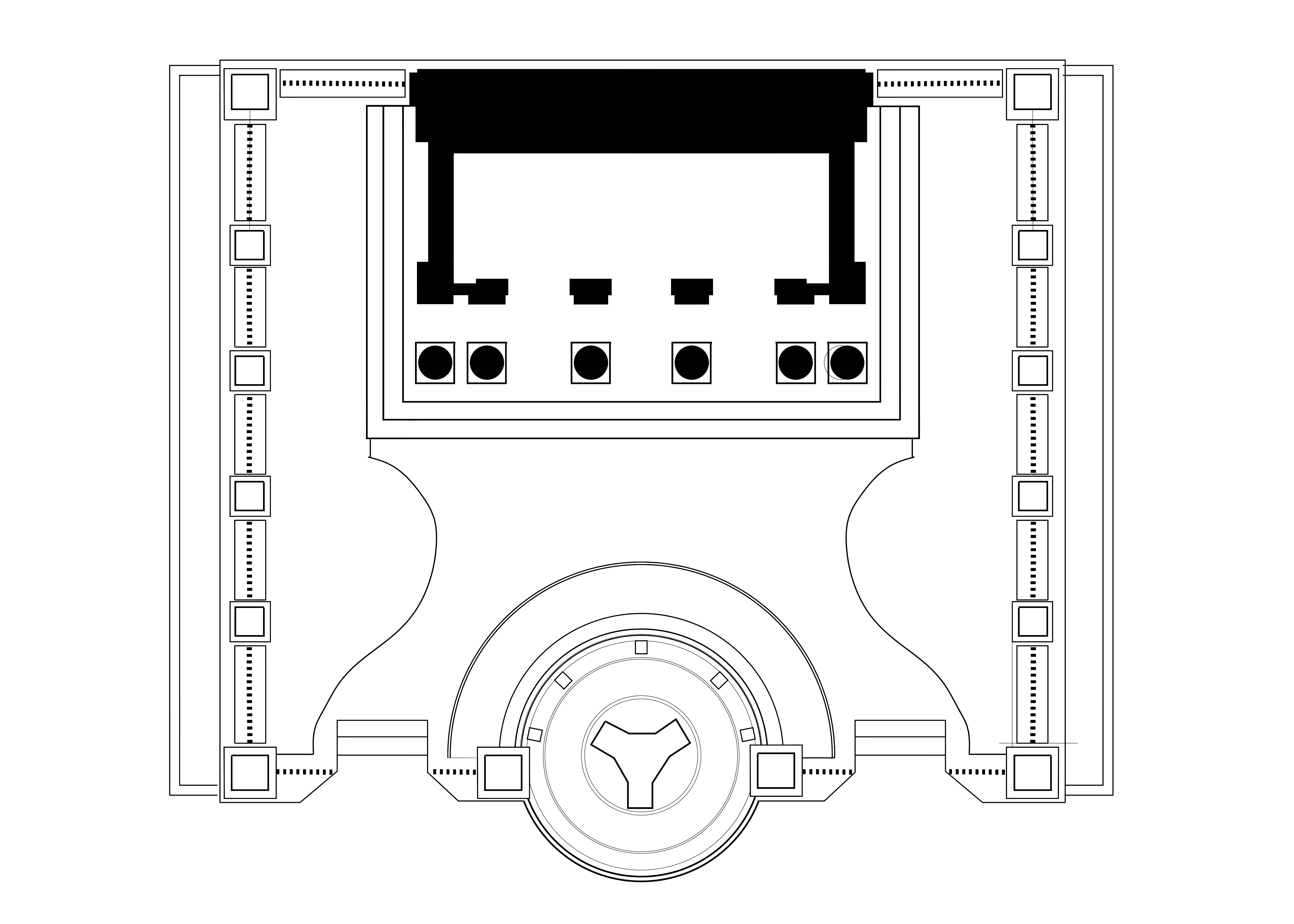 Autocad Drawing of El Templete, Havana